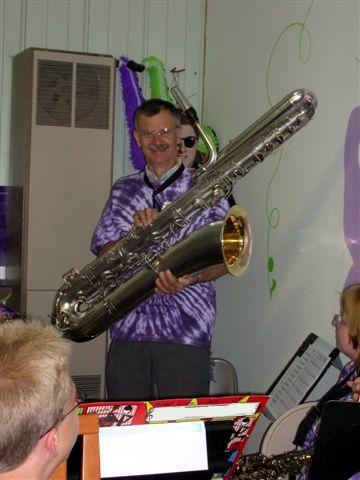 This is a picture of a man holding a bass saxophone. He is holding a 1920s Pan American (Conn) Bass Saxophone.